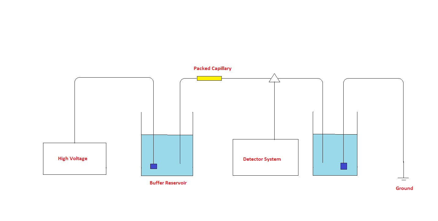 A diagramatic Representation of Capillary Electrochromatography